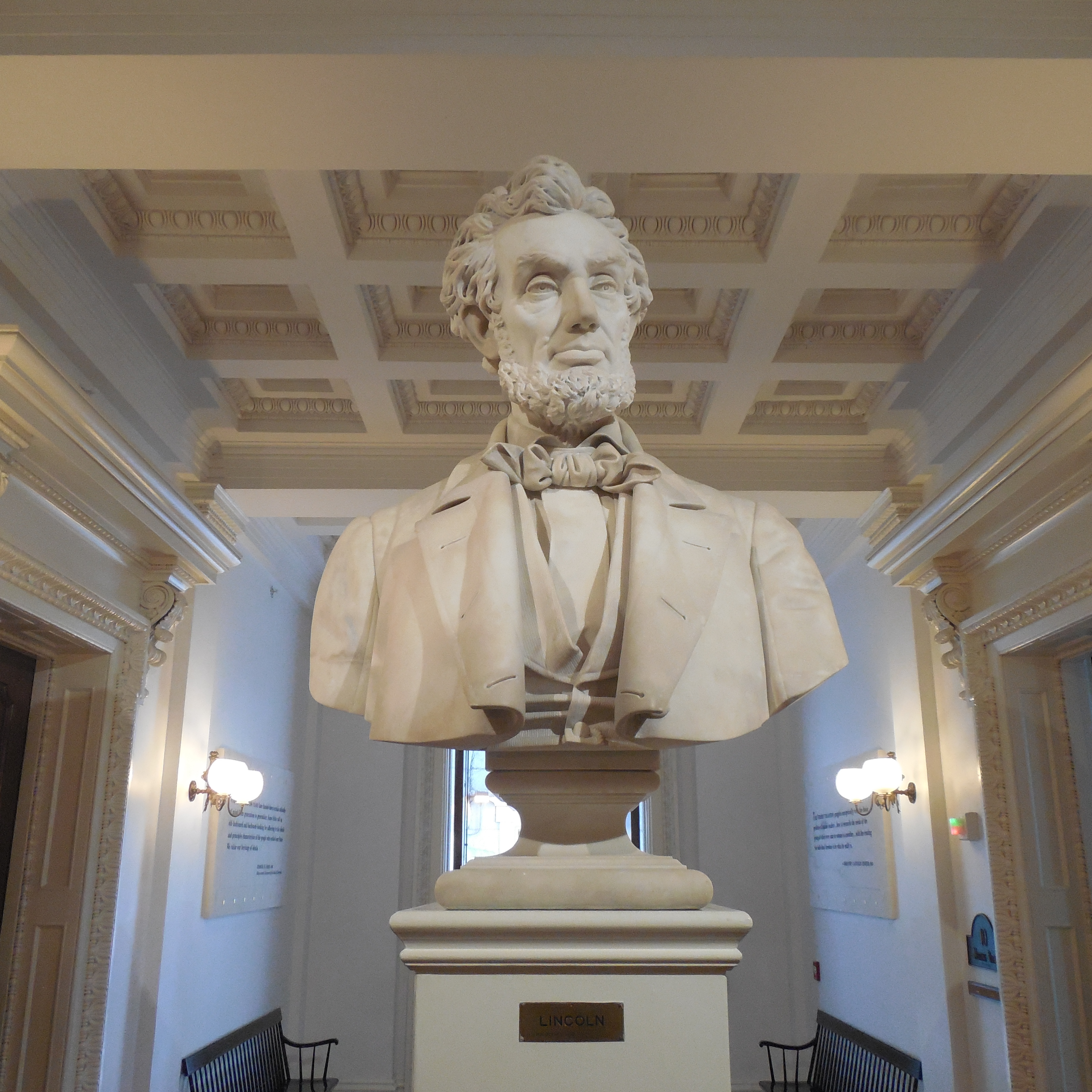 Bust of Abraham Lincoln in the Hall of Inscriptions within the Vermont State House. Carved by Larkin Goldsmith Mead (1835-1910).